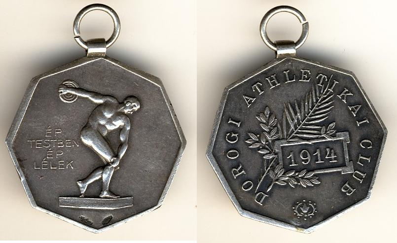 The oldest recollection of the club.Dorogi Athlétikai és Futball Club (1914–1922)